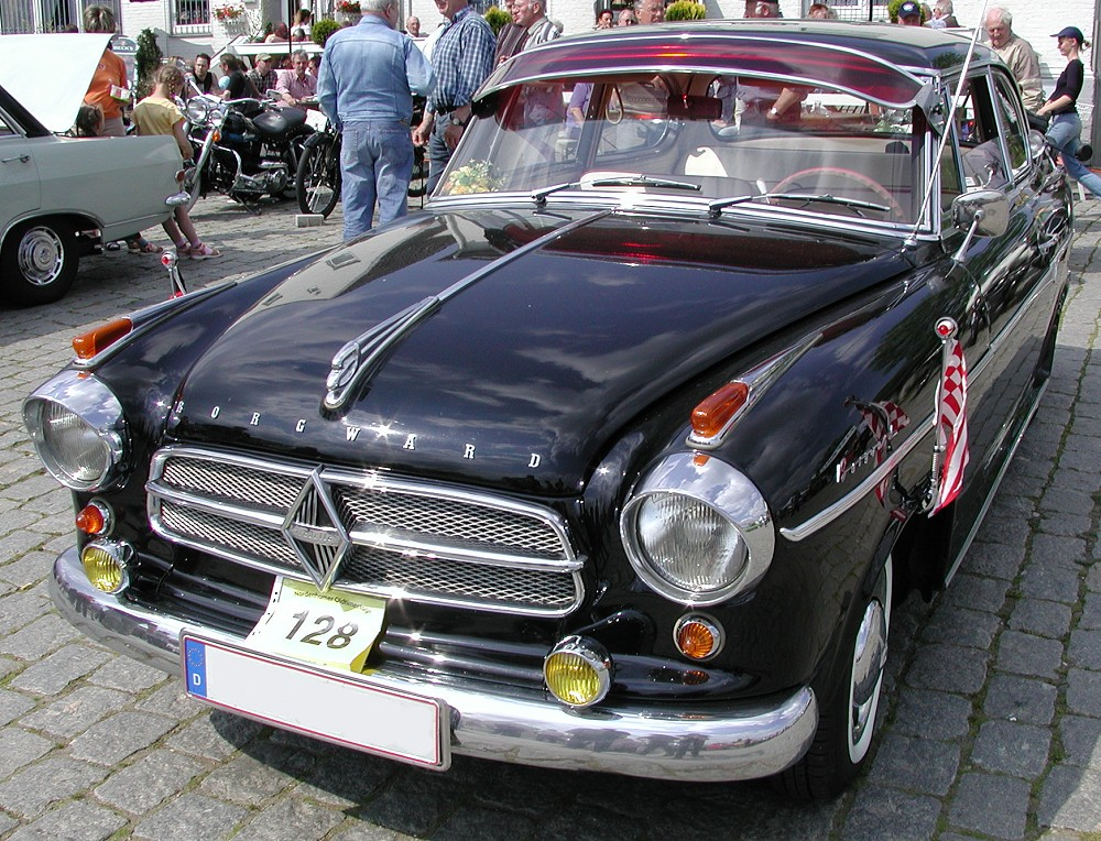 A Borgward Isabella TS Deluxe, photographed by Wilfried Wittkowsky in